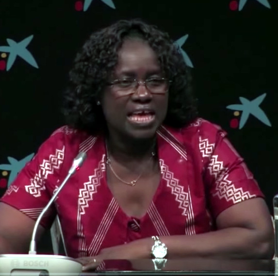 Fatumata Djau Baldé - was a foreign minister for Guinea-Bissau in 2003 - this is from a youtube video in 2015